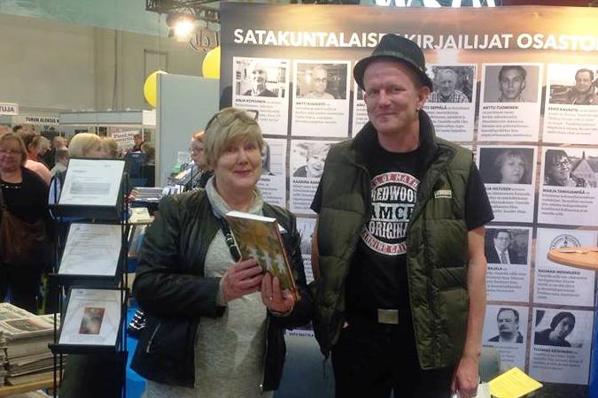 Kirjailija Kaarina Ranne ja kirjallisuuskriitikko Jari Olavi Hiltunen Turun Kirjamessuilla 2015